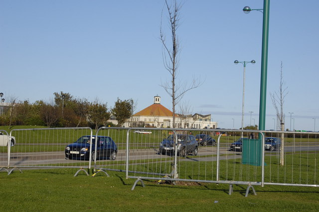 Beach Boulevard, Aberdeen The Beach Ballroom in the background.